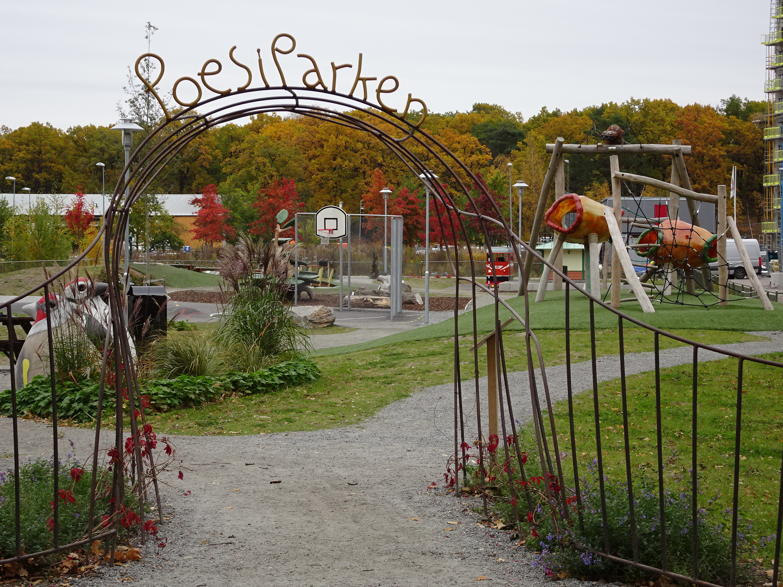 Playground Poesiparken in Öster Mälarstrand, Västerås, Sweden. It was inaugurated in the summer of 2016.